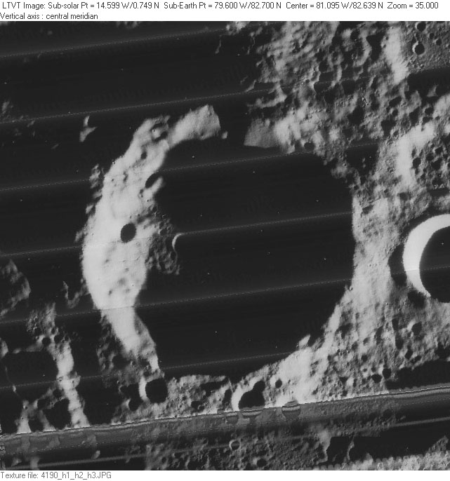 Image of moon crater Sylvester from Lunar Orbiter data (detail of LO IV-190H)